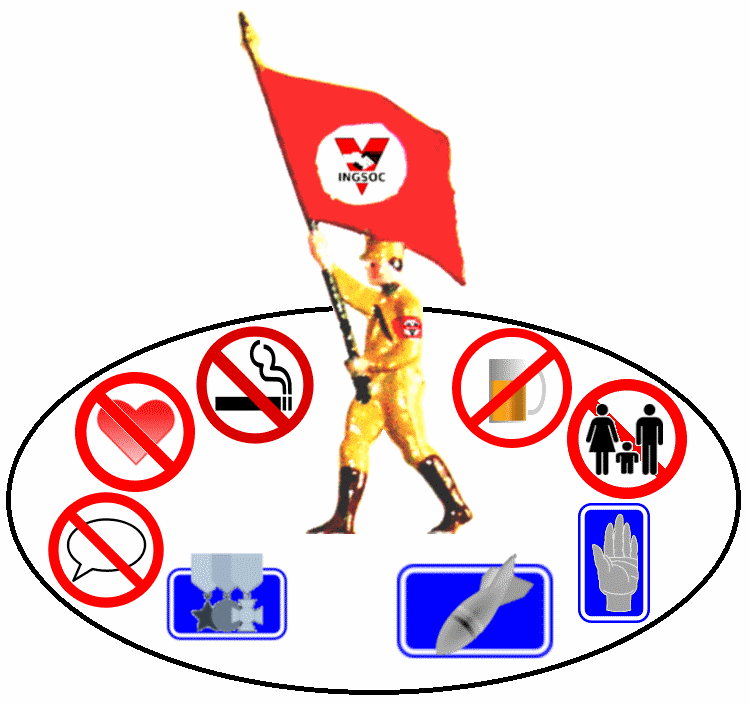 Sketch of the Ideal Citizen concept in George Orwell's 1984, shown through the novel’s main protagonist creation of Comrade Ogilvy, who had never existed in reality, but accumulated all virtues of genuine Oceanian and served as an example of who is considered to be the “righteous man”, and what should he do to fulfill his commitment to his motherland. The illustration was created for usage in the proper chapter of Ru-wiki’s Comrade Ogilvy article.